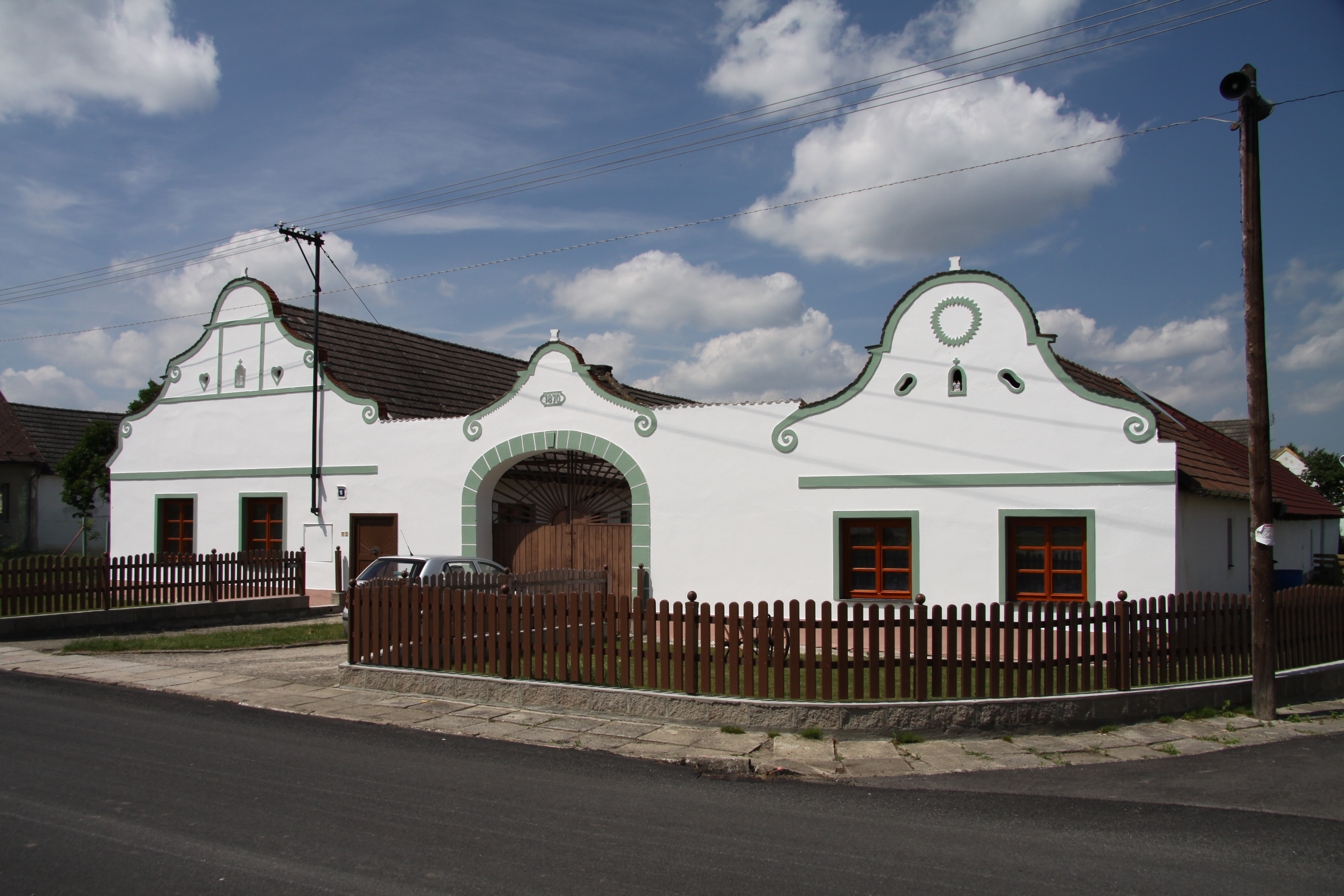 Selské baroko (country Baroque) in Lužnice village in Jindřichův Hradec District, Czech Republic